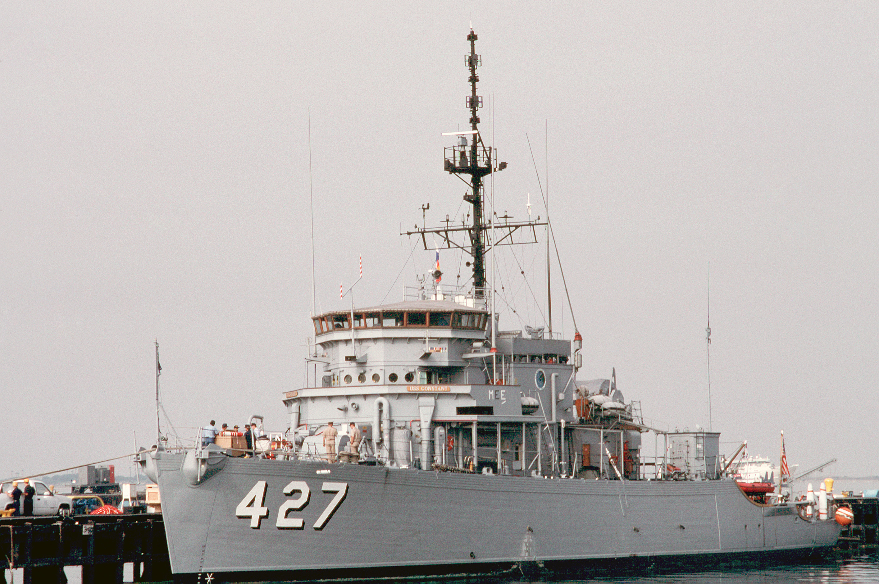 A port bow view of the ocean minesweeper USS CONSTANT (MSO 427) tied up at a pier on the base. Location: NAVAL BASE SAN DIEGO, CALIFORNIA (CA) UNITED STATES OF AMERICA (USA)